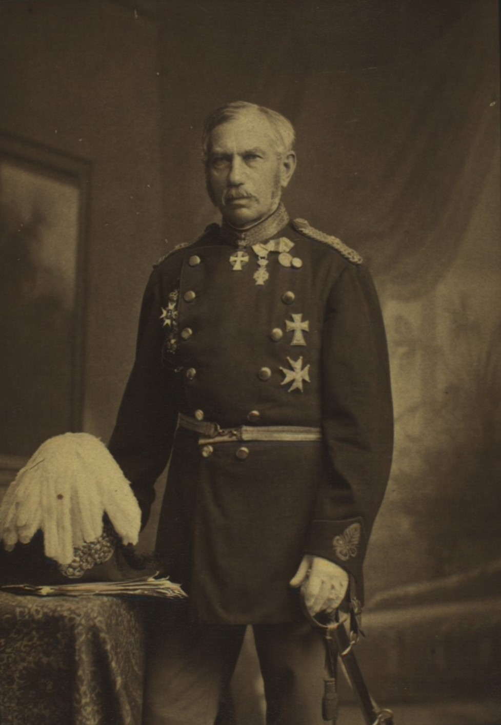 Danish general Heinrich Theodor Wenck (1810-1885)